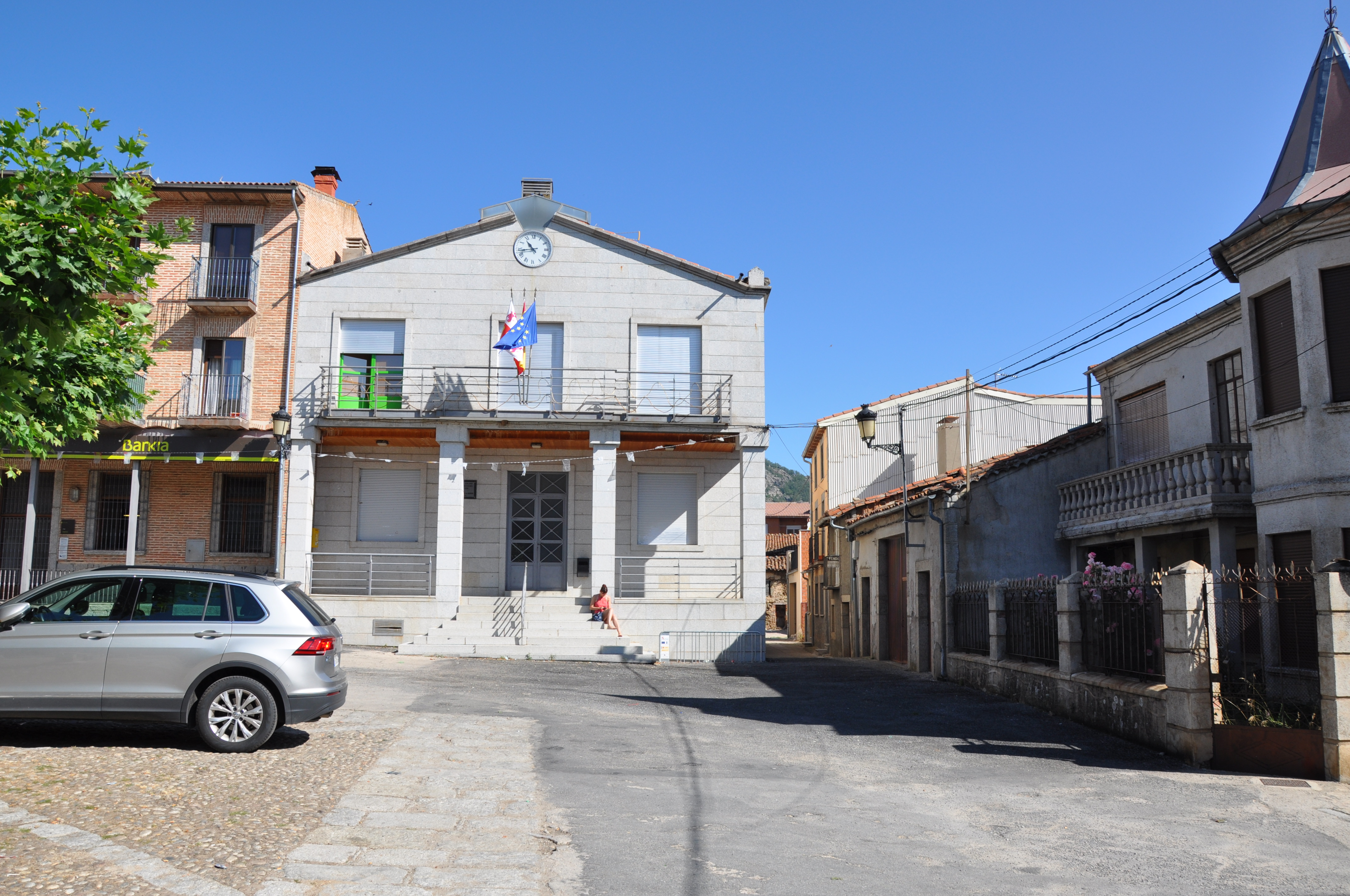 City Hall of Becedas, Ávila, Spain